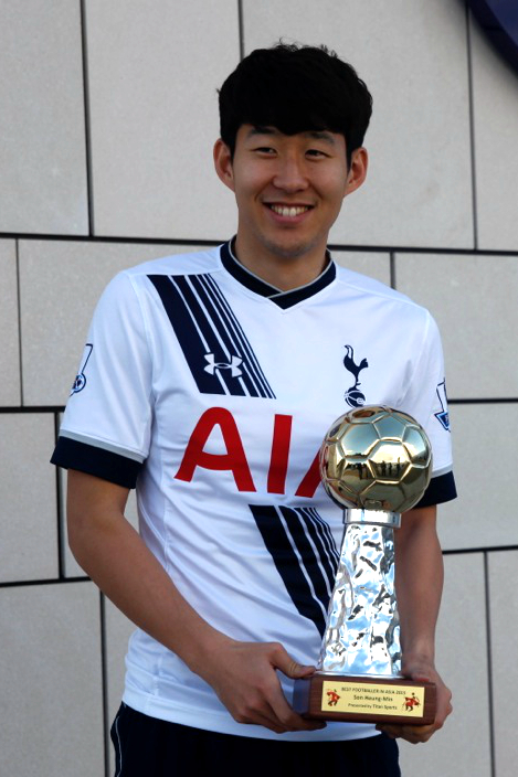 Titan Sports conferred the BFA 2015 trophy to Son Heung-min